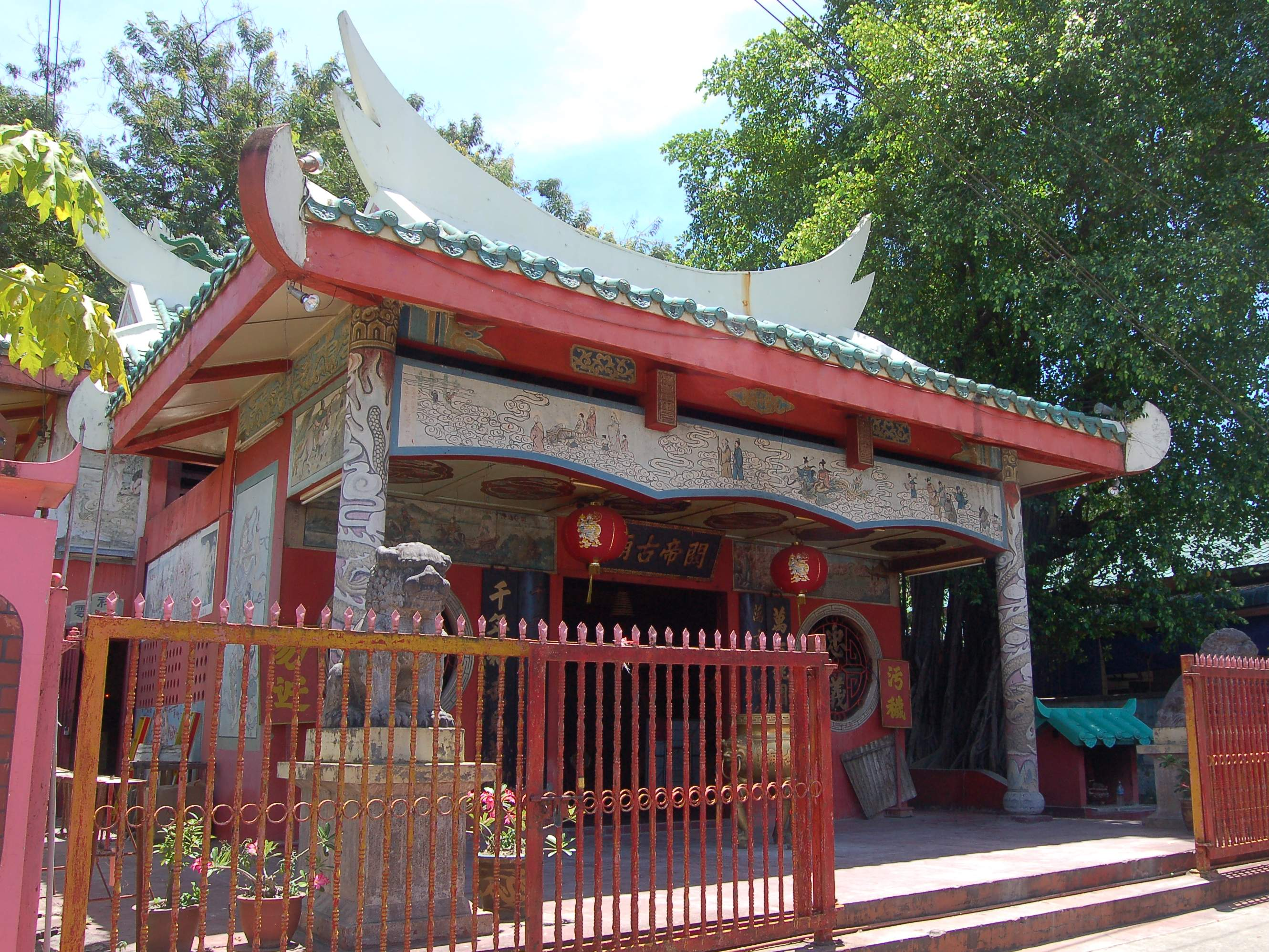 Lahad Datu Guandi Temple